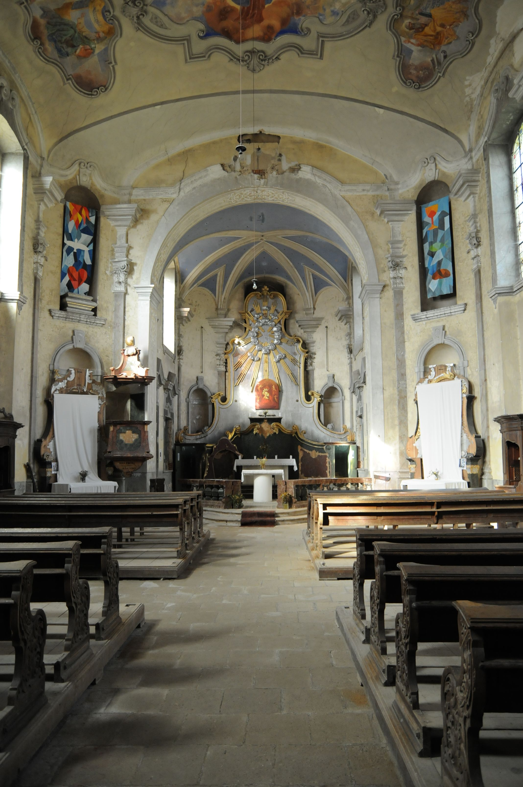 Pilgrimage Church Skoky- interior